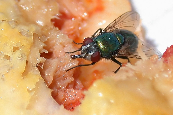 Fly at a Pizza